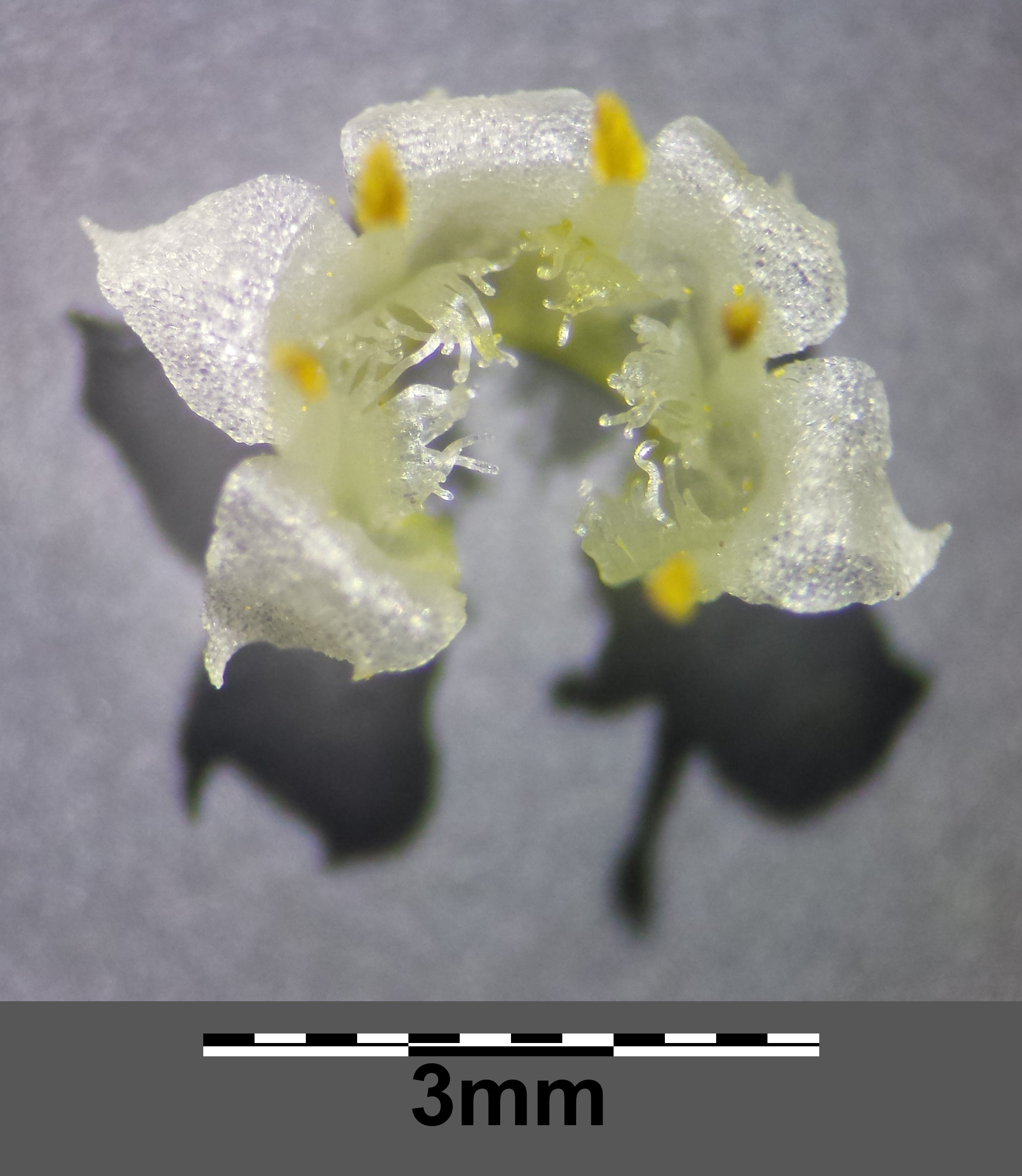 Corolla Taxonym: Cuscuta campestris ss Fischer et al. EfÖLS 2008 ISBN 978-3-85474-187-9 Location: Žárský rybník, Jihočeský kraj, Czech Republic - ca. 500 m a.s.l. Habitat: ground of a pond